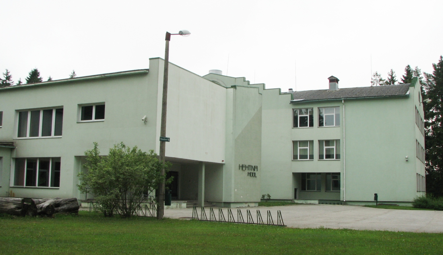 Kehtna Basic School